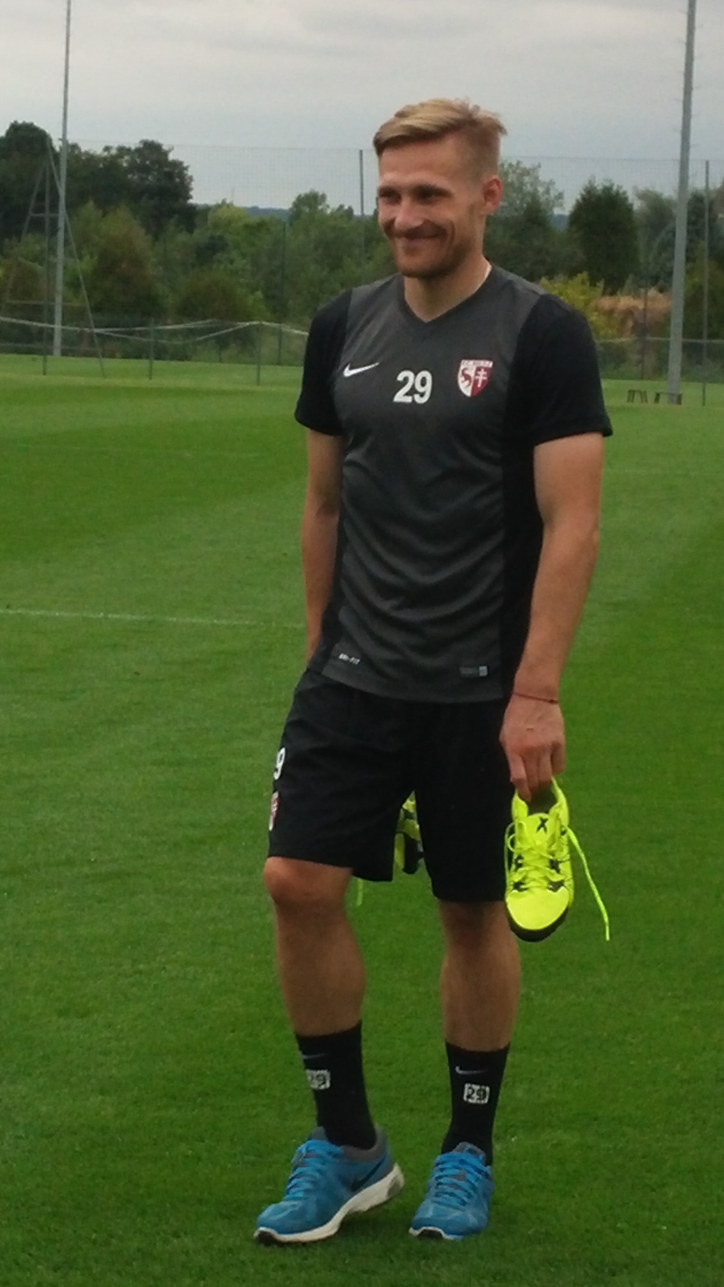 Sergey Krivets after a training session with FC Metz